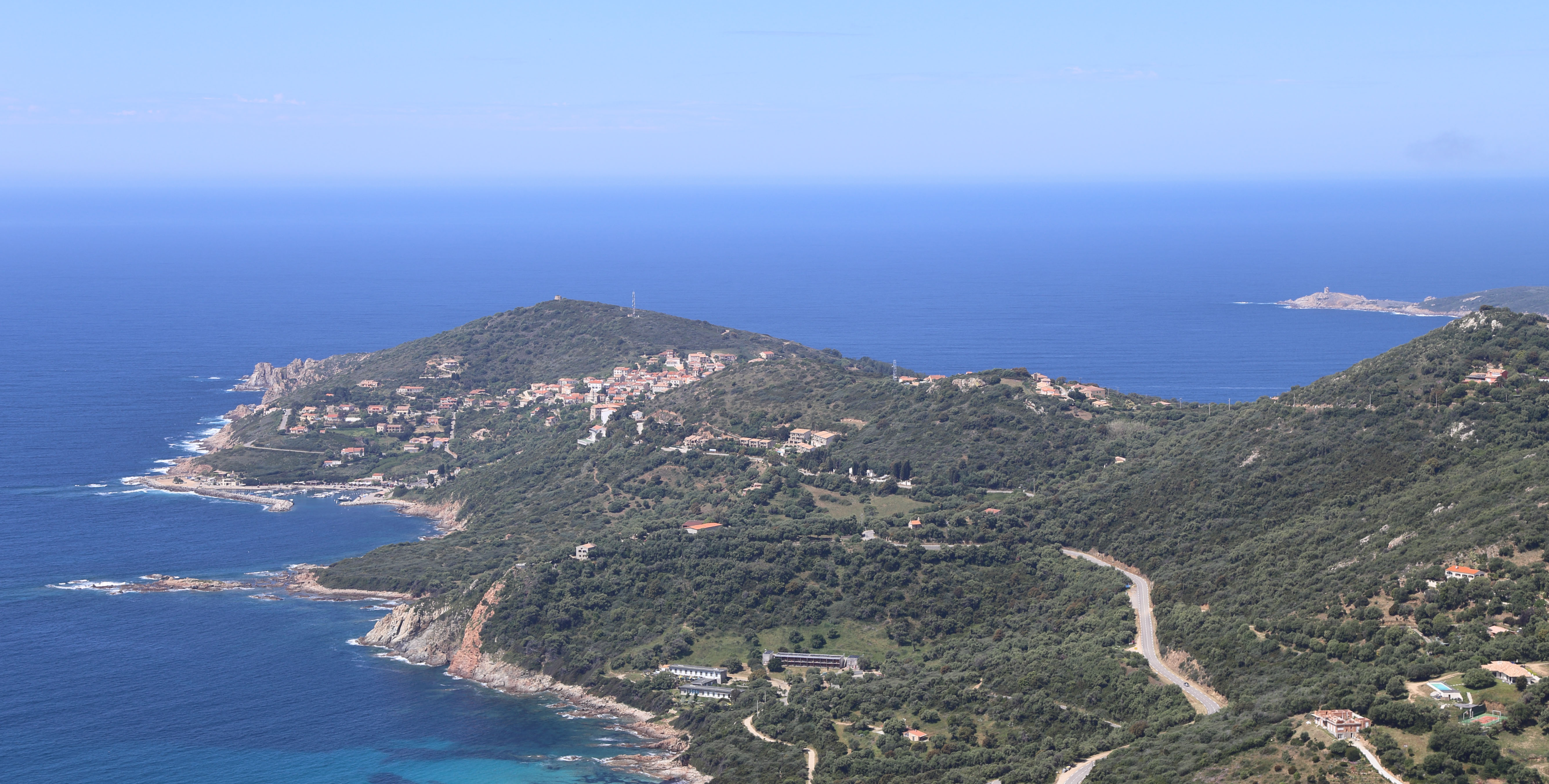 View of the village of Cargèse looking in a westerly direction. The port with the marina is on the left. The ruined Genoese tower, the Torra d'Omigna is at the top right. Another Genoese tower, the Torra di Carghjesi, sits at the highest point of the headland above the village. The buildings of the conference centre, the Études Scientifiques de Cargèse, are in the centre foreground by the sea. The road in the foreground is the D 81 that runs along the coast to the village of Sagone.